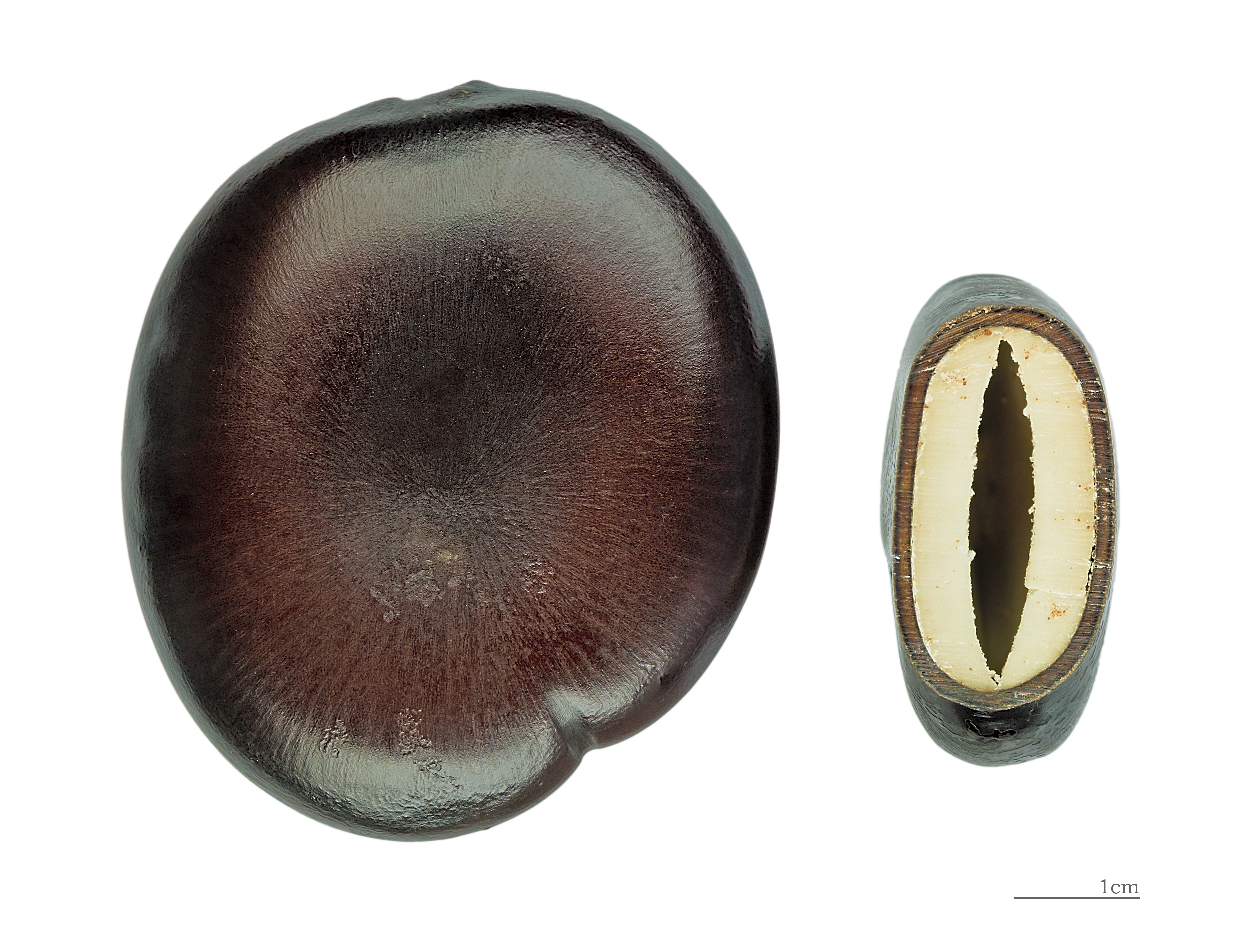 Entada phaseoloides, seeds. The seeds can float in water, as there is an air cavity between the two cotyledons (Hydrochory).